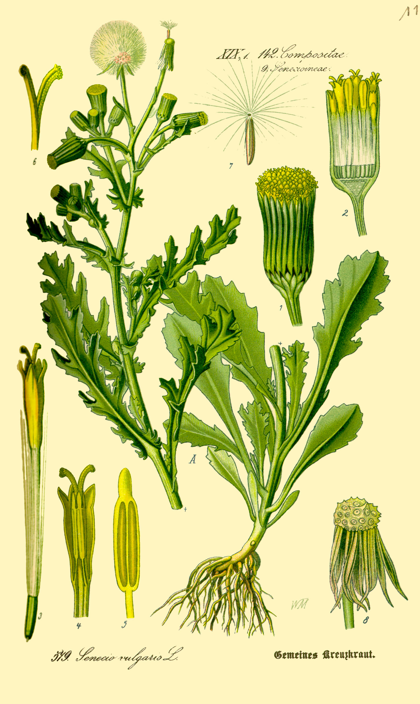 Name:Senecio vulgaris Family:Asteraceae A. Flowering stalk, rooted leaf stalk Blooming corolla Cross section of a blooming corolla Flower with stamen and fruit Cross section of flower with stamen and fruit Unopened flower Flower and stamen Achene Pericap